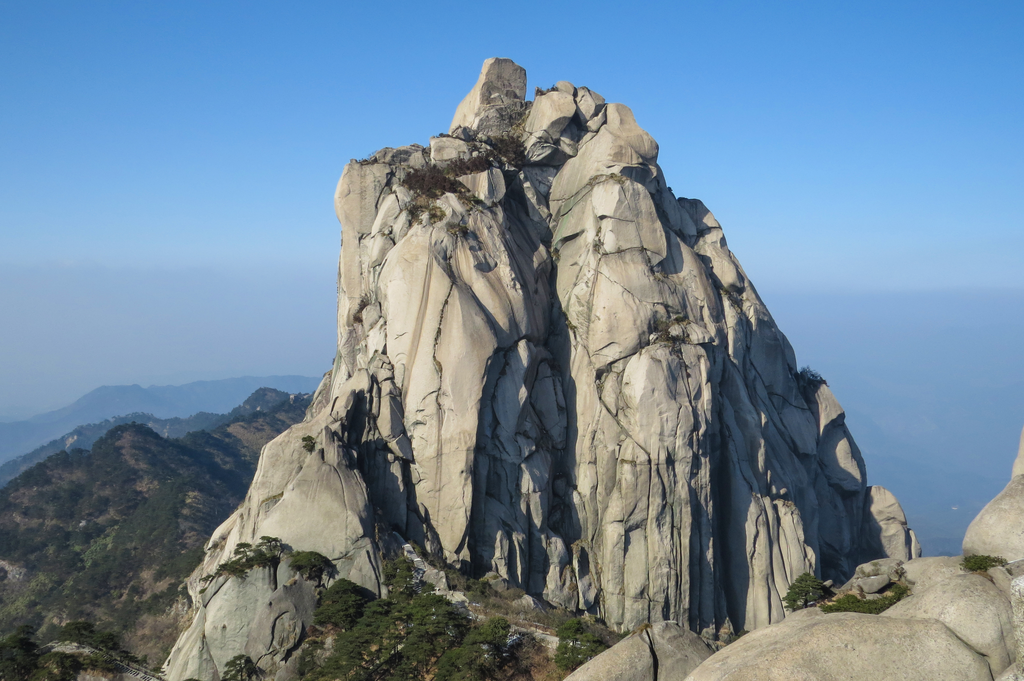 The pole to the sky, finally reached.